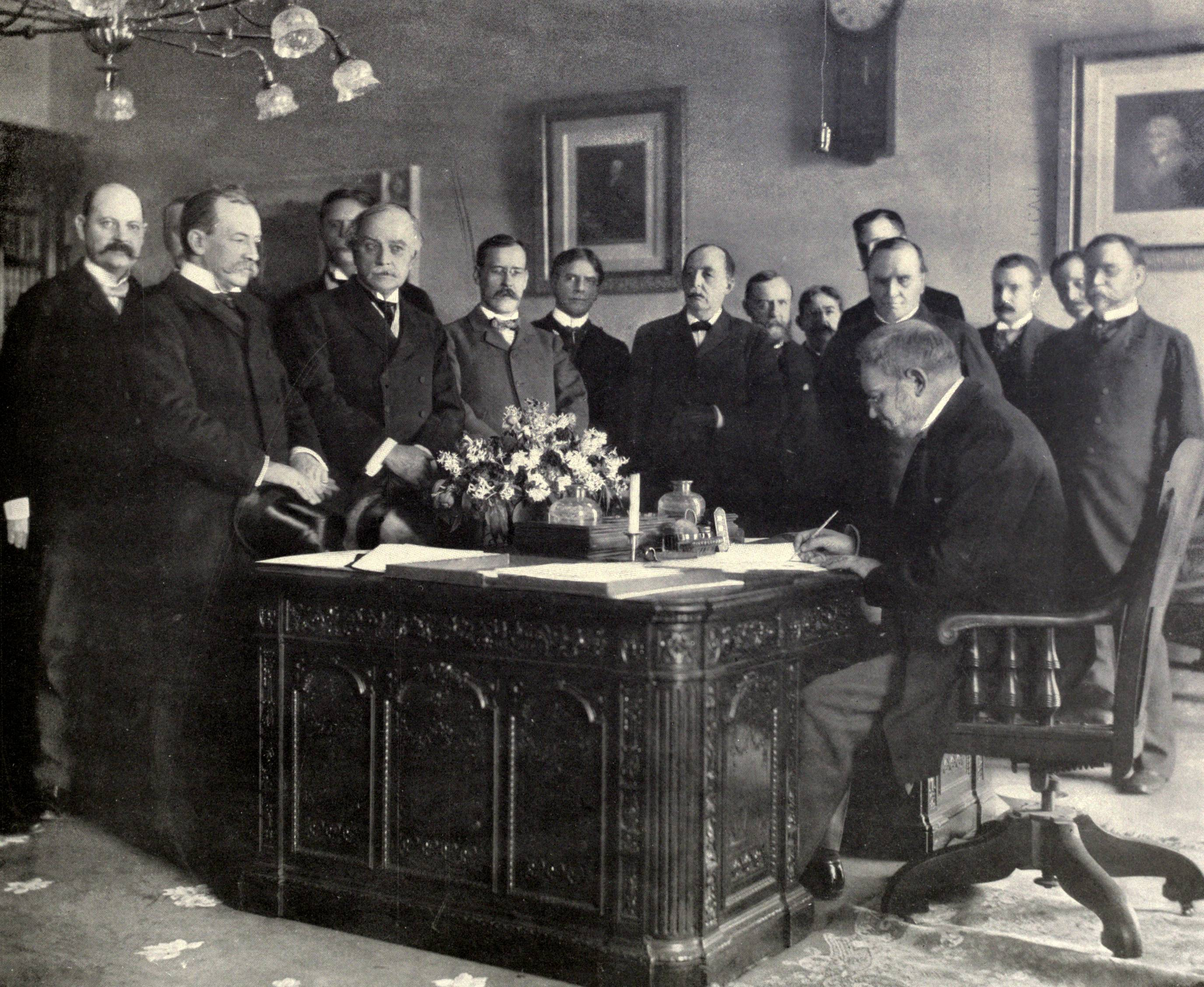 Jules Cambon, the French Ambassador to the United States, signing the memorandum of ratification on behalf of Spain, from p. 431 of Harper's Pictorial History of the War with Spain, Vol. II, published by Harper and Brothers in 1899.